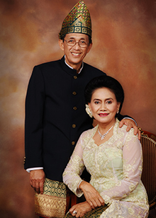 Photo of Syarifuddin Alambai